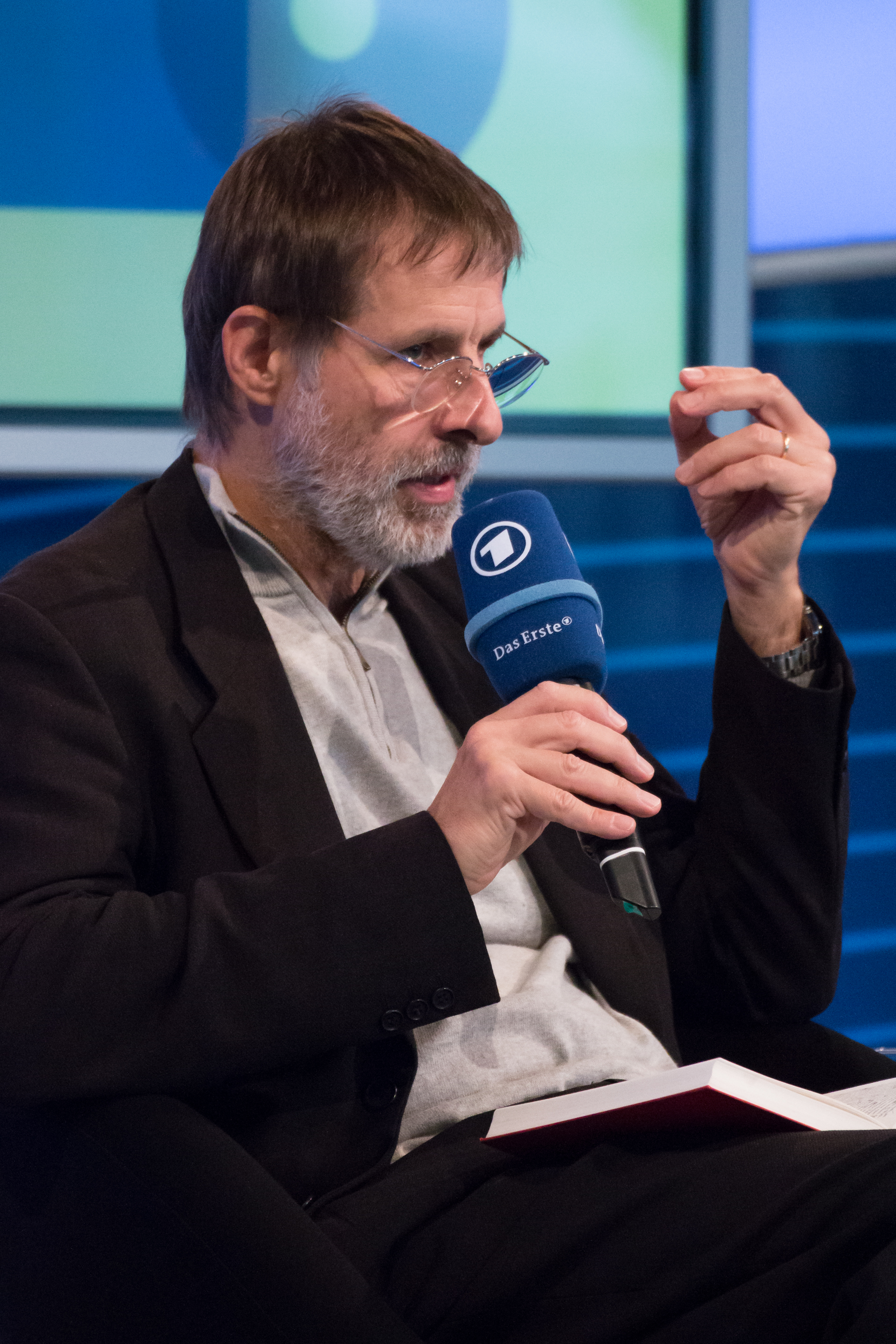 The dramatic adviser and narrator Frank Arnold on the Frankfurt Book Fair 2014